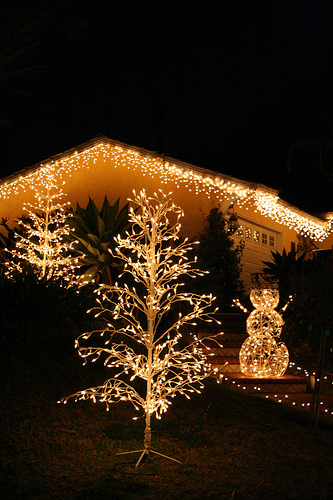 Christmas lights